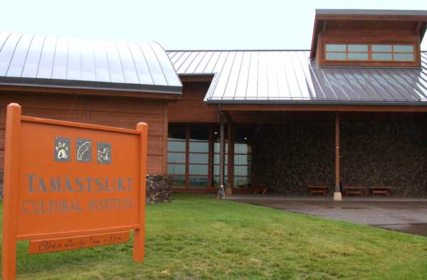 Tamástslikt Cultural Institute on the Umatilla Indian Reservation near Pendleton (taken Oct. 20, 2004) © 2004 Matthew Trump